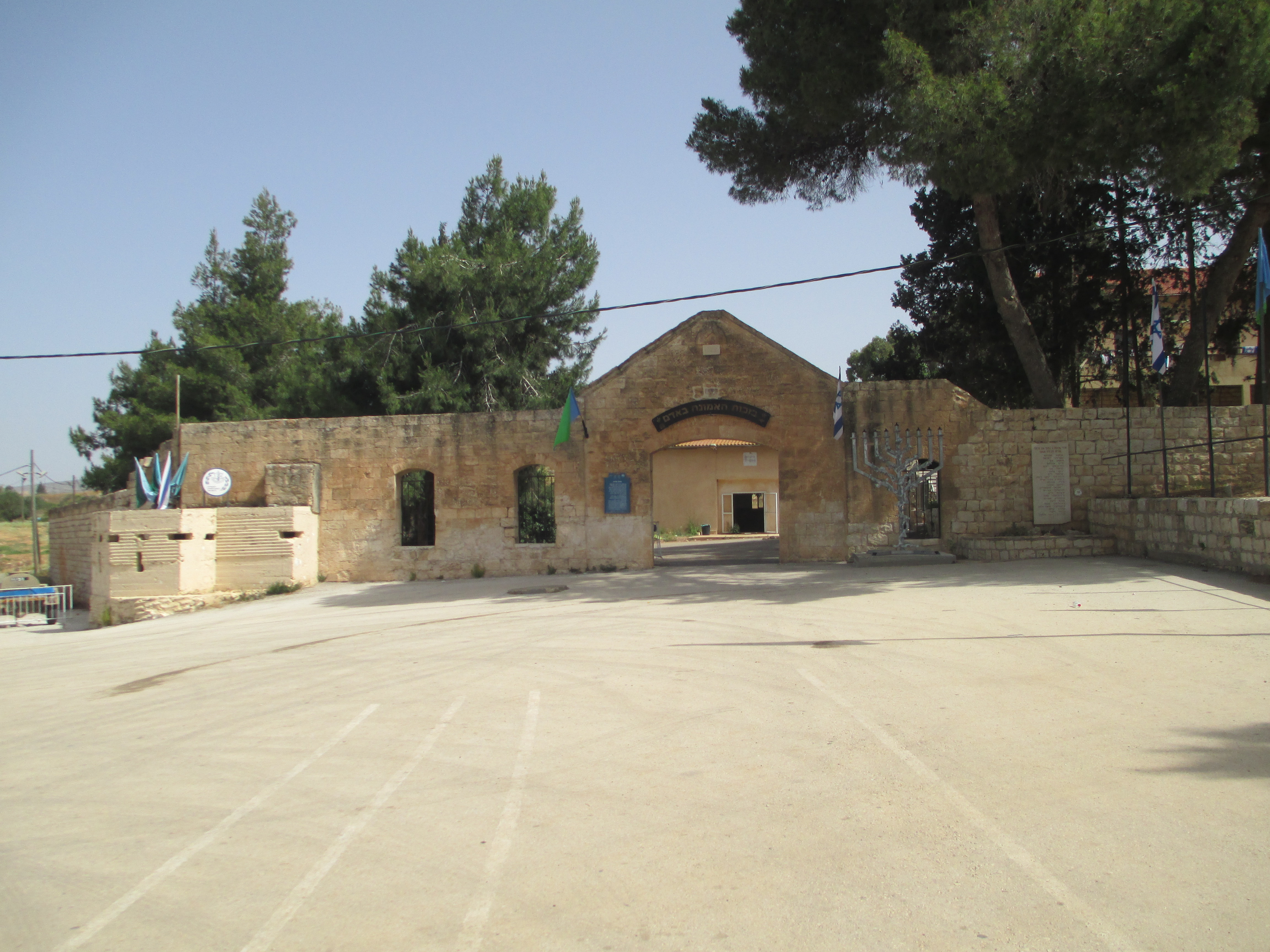 Hashomer farm